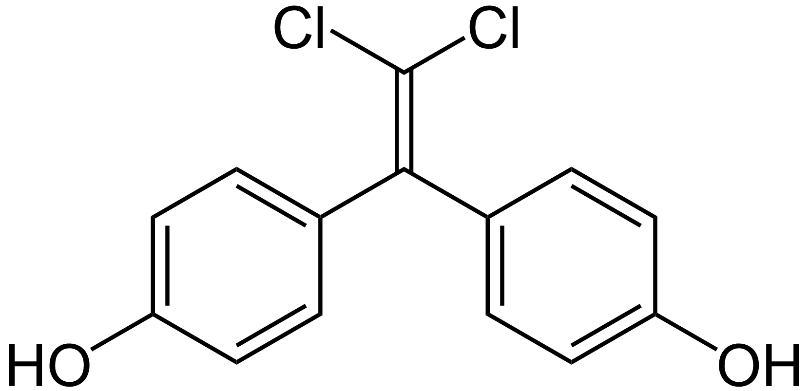 Bisphenol_C_Structural_Formula CAS:14868-03-2